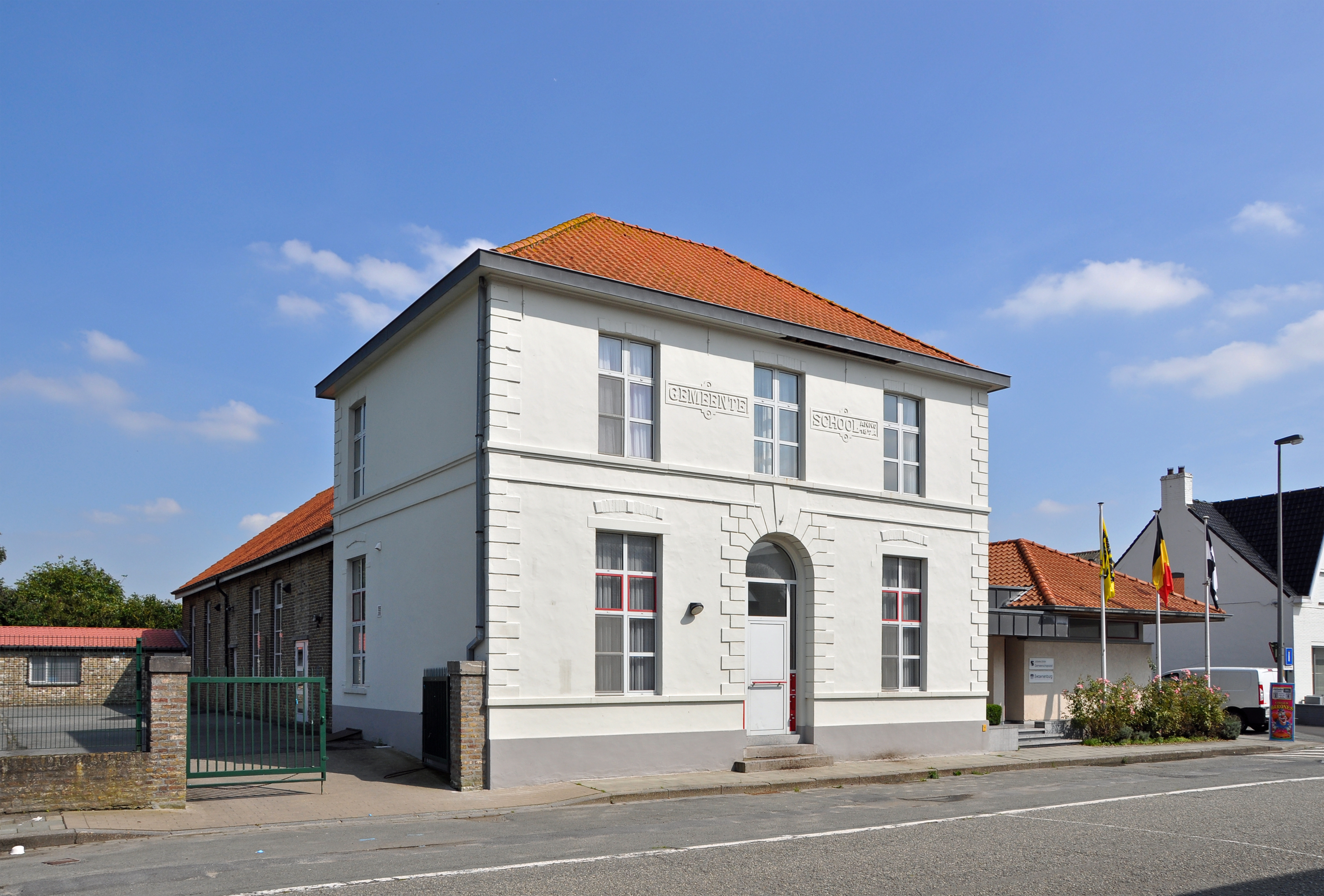 Stalhille (municipality of Jabbeke, province of West Flanders, Belgium): the former municipal school - architect: Pierre François Buyck